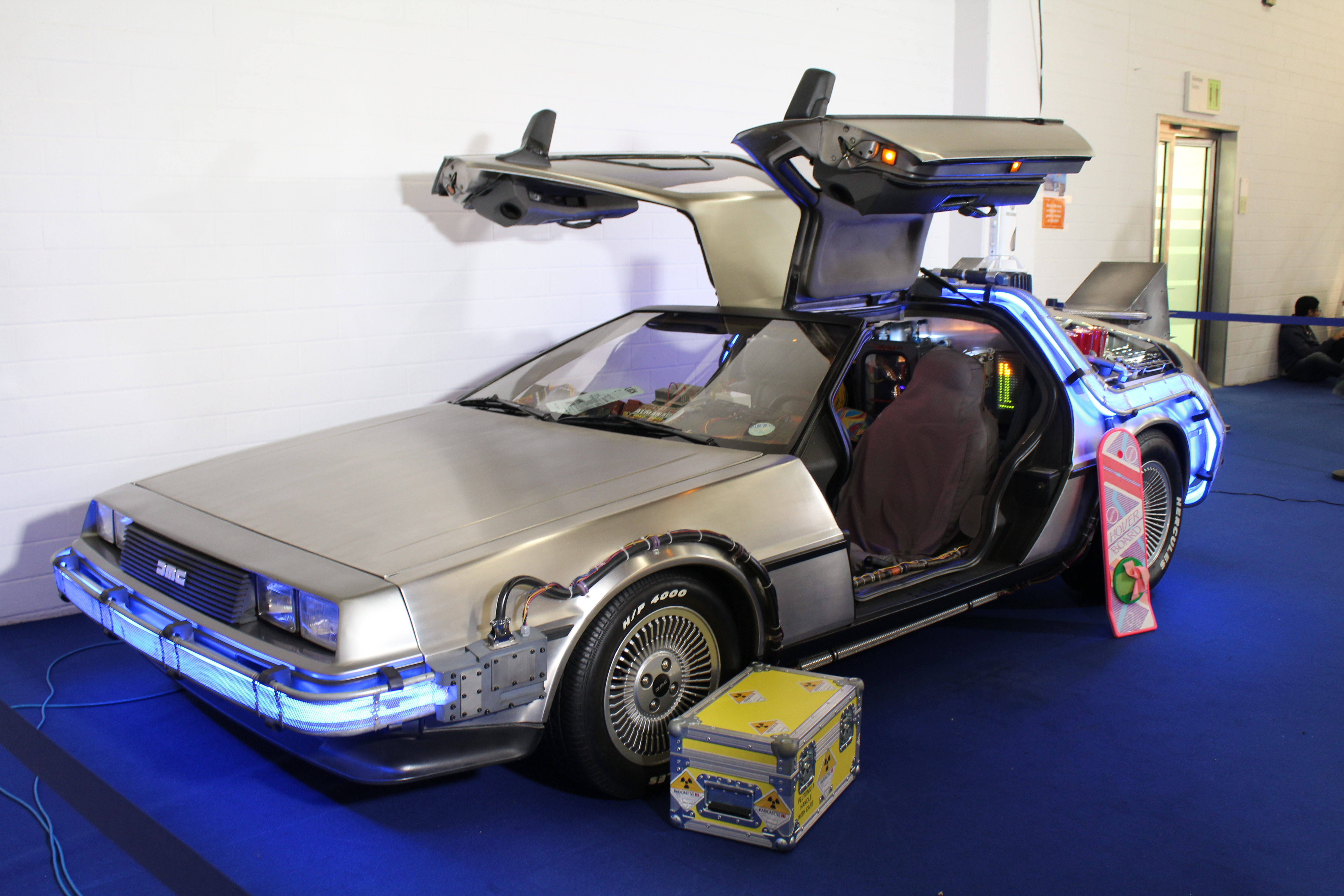 Passenger vehicles being displayed in 2015 International Motor Show Germany. De Lorean DMC-12 in Back from the Future, along with Hoverboard and Plutonium transport box.